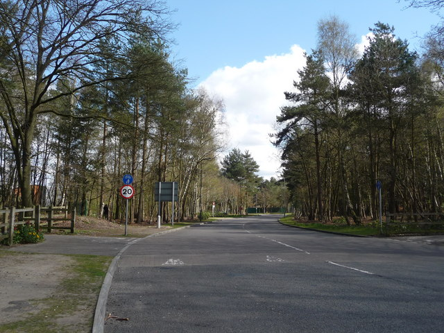 The entrance to Guillemont Park Guillemont Park is an industrial estate near to Junction 4a of the M3.